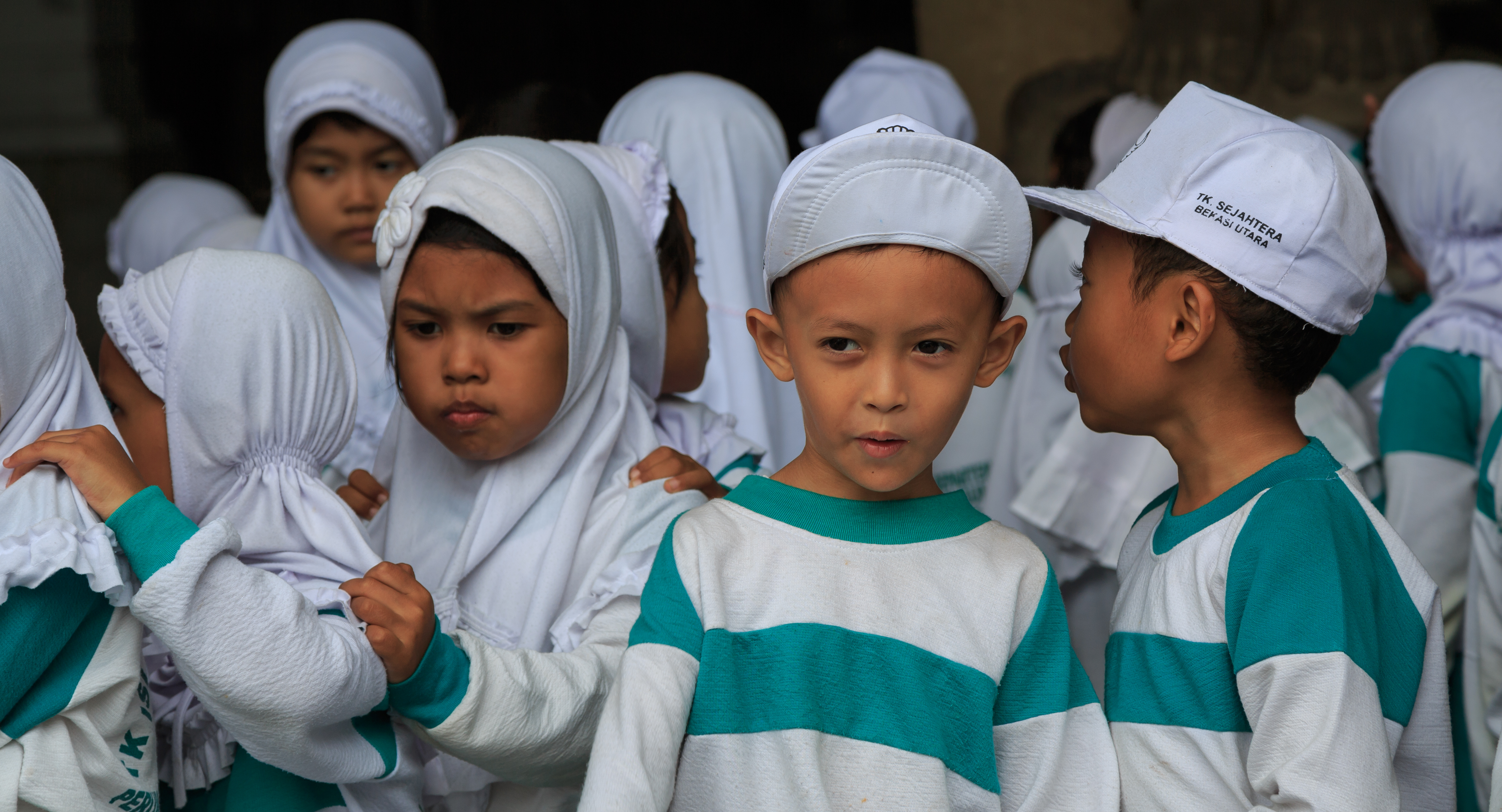 Jakarta, Indonesia: A group of kindergarten children, visiting National Museum Jakarta.